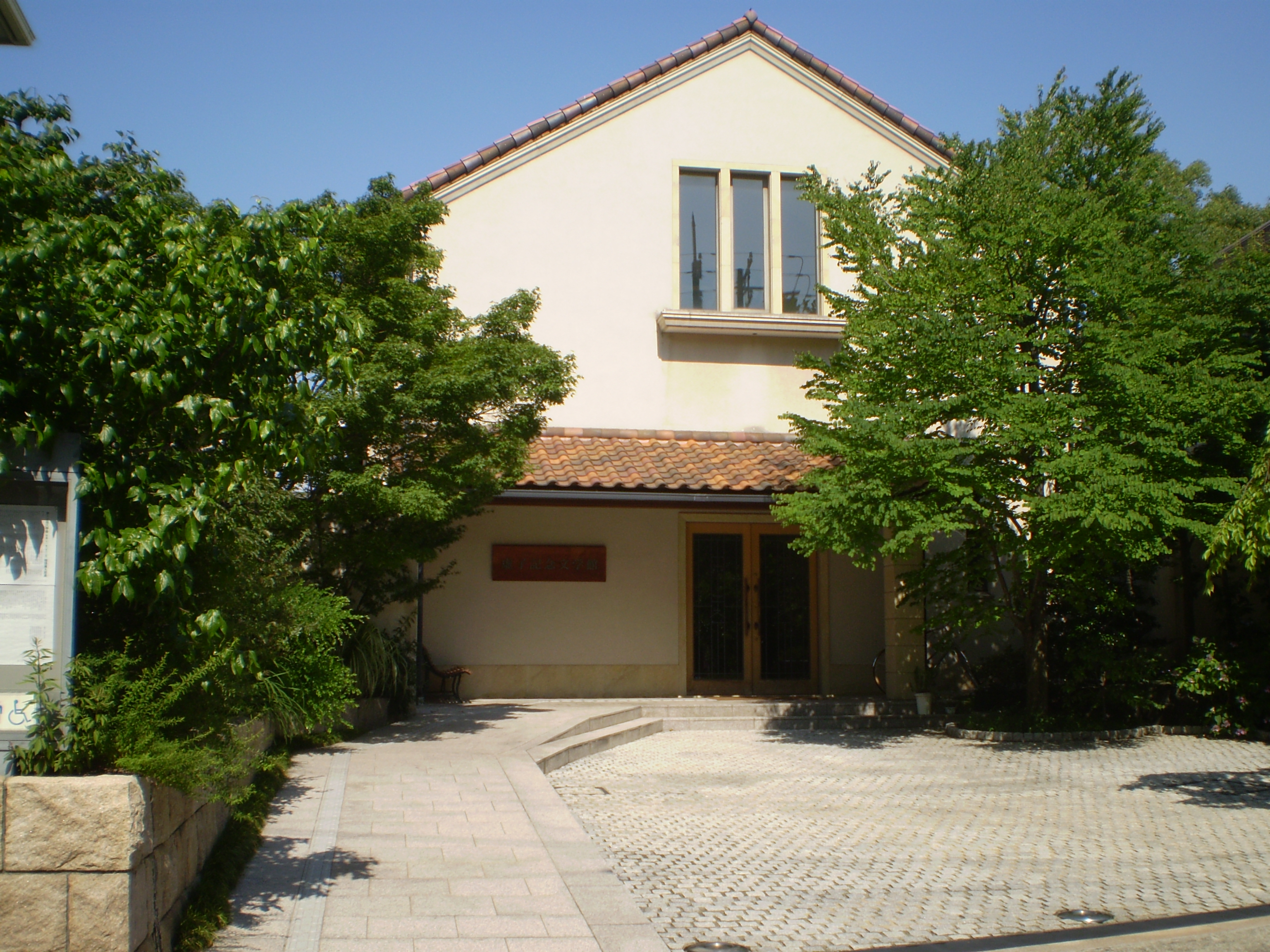 Kyoshi Takahama Literature Museum